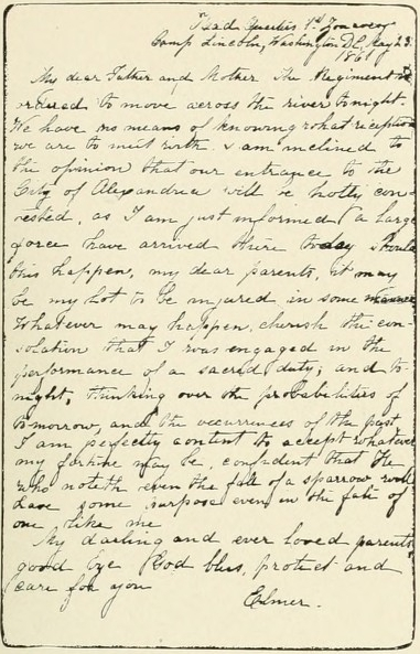 Last letter written by Elmer Ellsworth before he was killed.